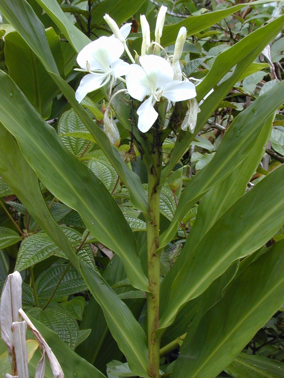 Hedychium coronarium (leaves and flowers). Location: Maui, Wahinepee